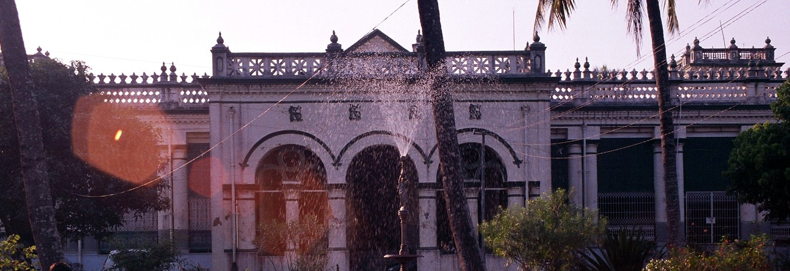 Picture of Navaratan Now